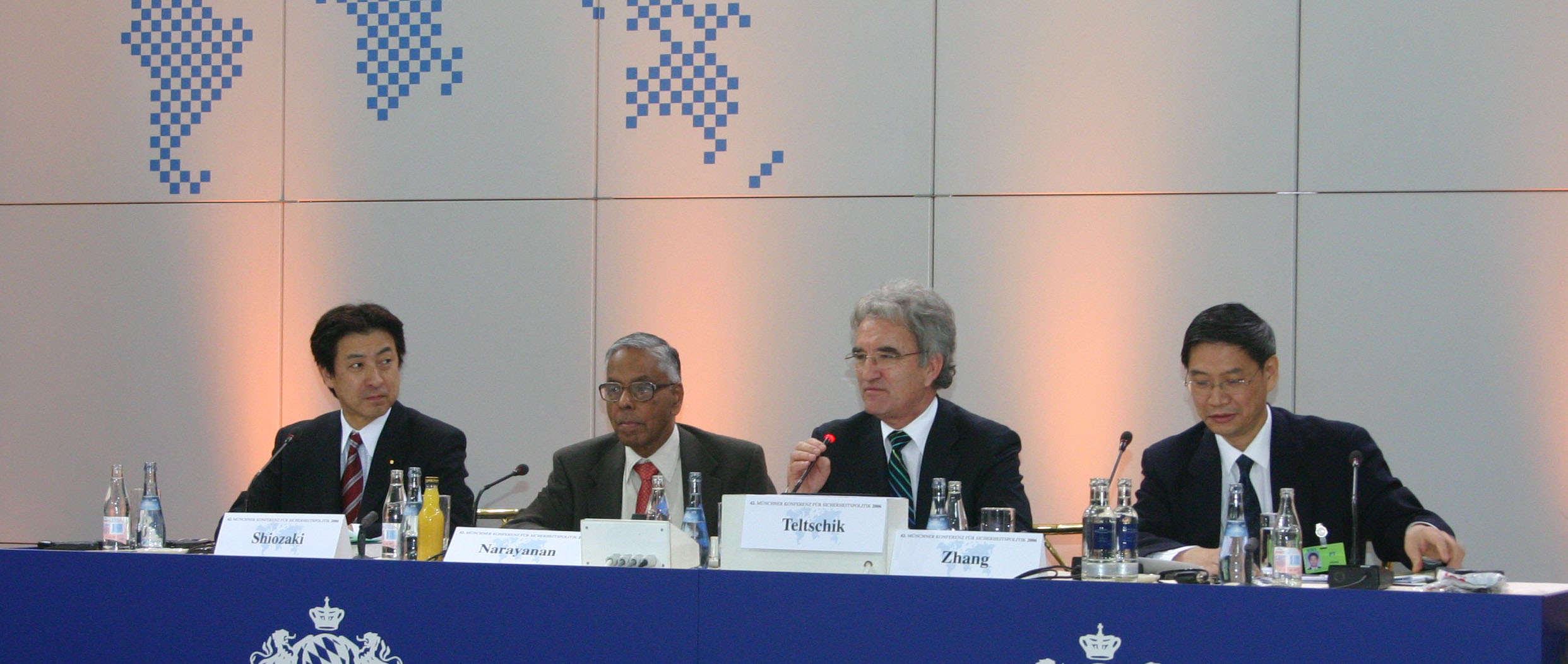 42nd Munich Security Conference 2006: (von li.)Yasuhisa Shiozaki, Senior Vice-Minister of Foreign Affairs, Japan, M.K. Narayanan, National Security Advisor, Prof.Dr.Horst Teltschik, Zhijun Zhang, Vice-Minister, International Department, Central Committee of the Communist Party of China.